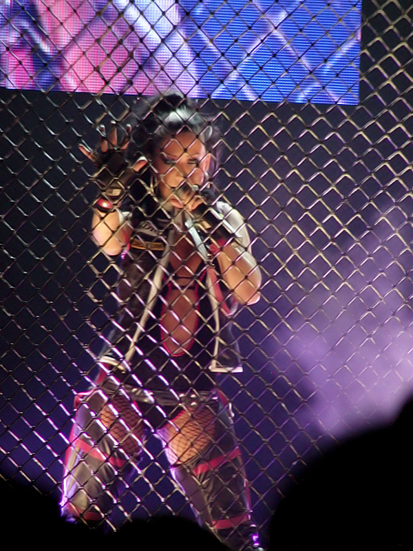 Christina Aguilera singing "Make Over" on the Justified & Stripped Tour